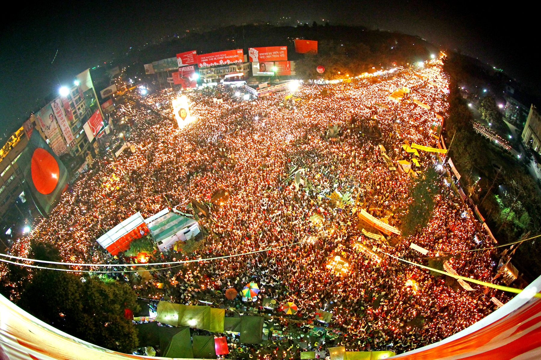 2013 Shahbag protests, Protest against the war criminals in Shahbagh, Bangladesh.